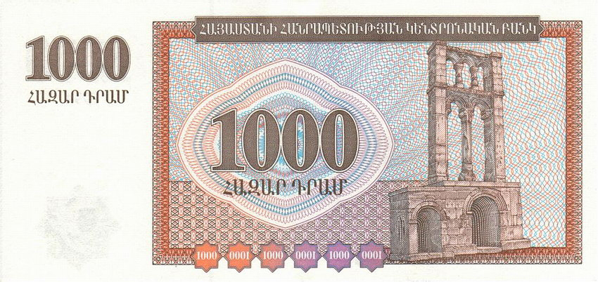 1000 dram 1994